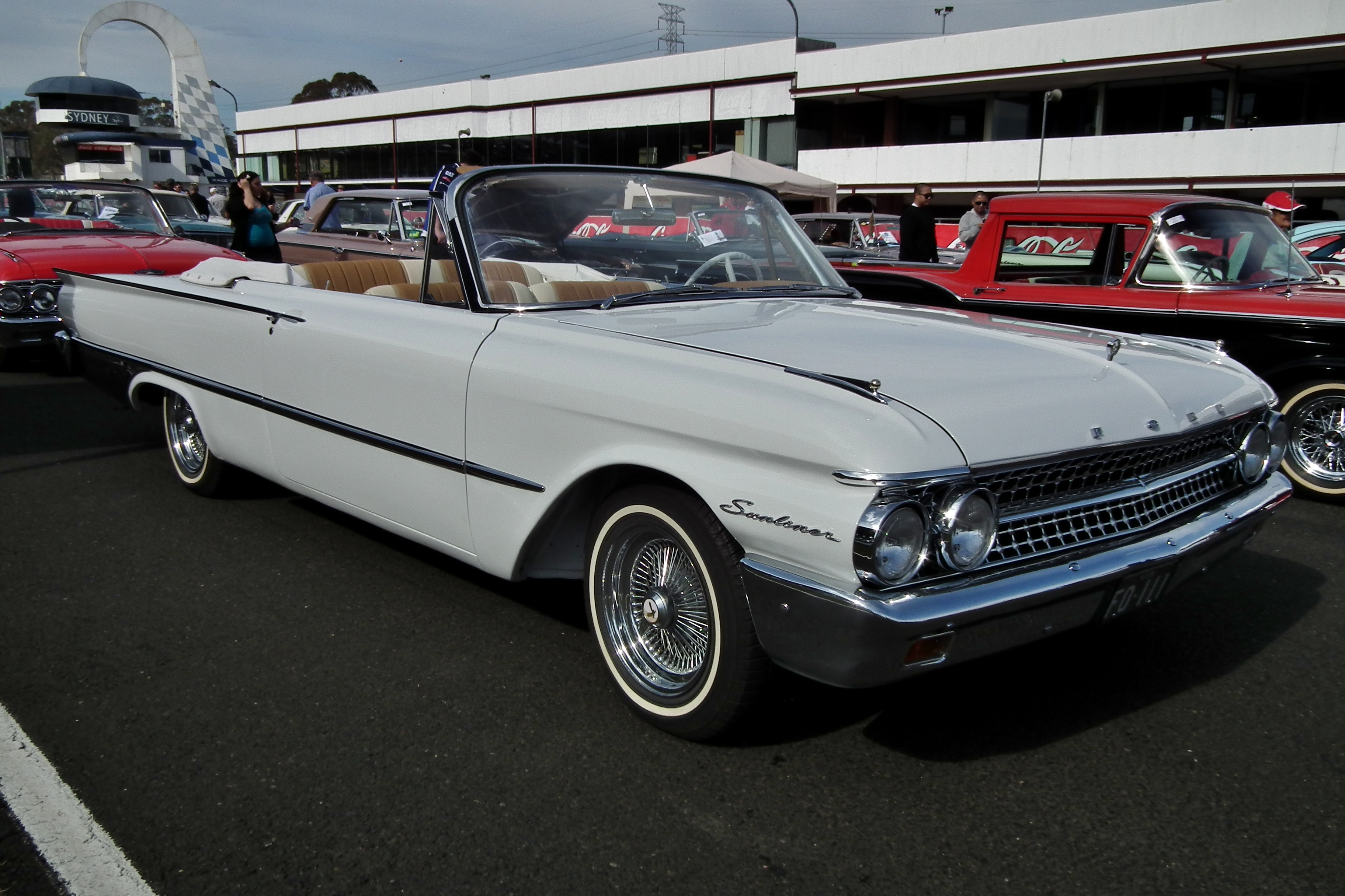 1961 Ford Galaxie Sunliner convertible. Taken at the 2011 New South Wales All Ford Day, held at Eastern Creek Raceway.